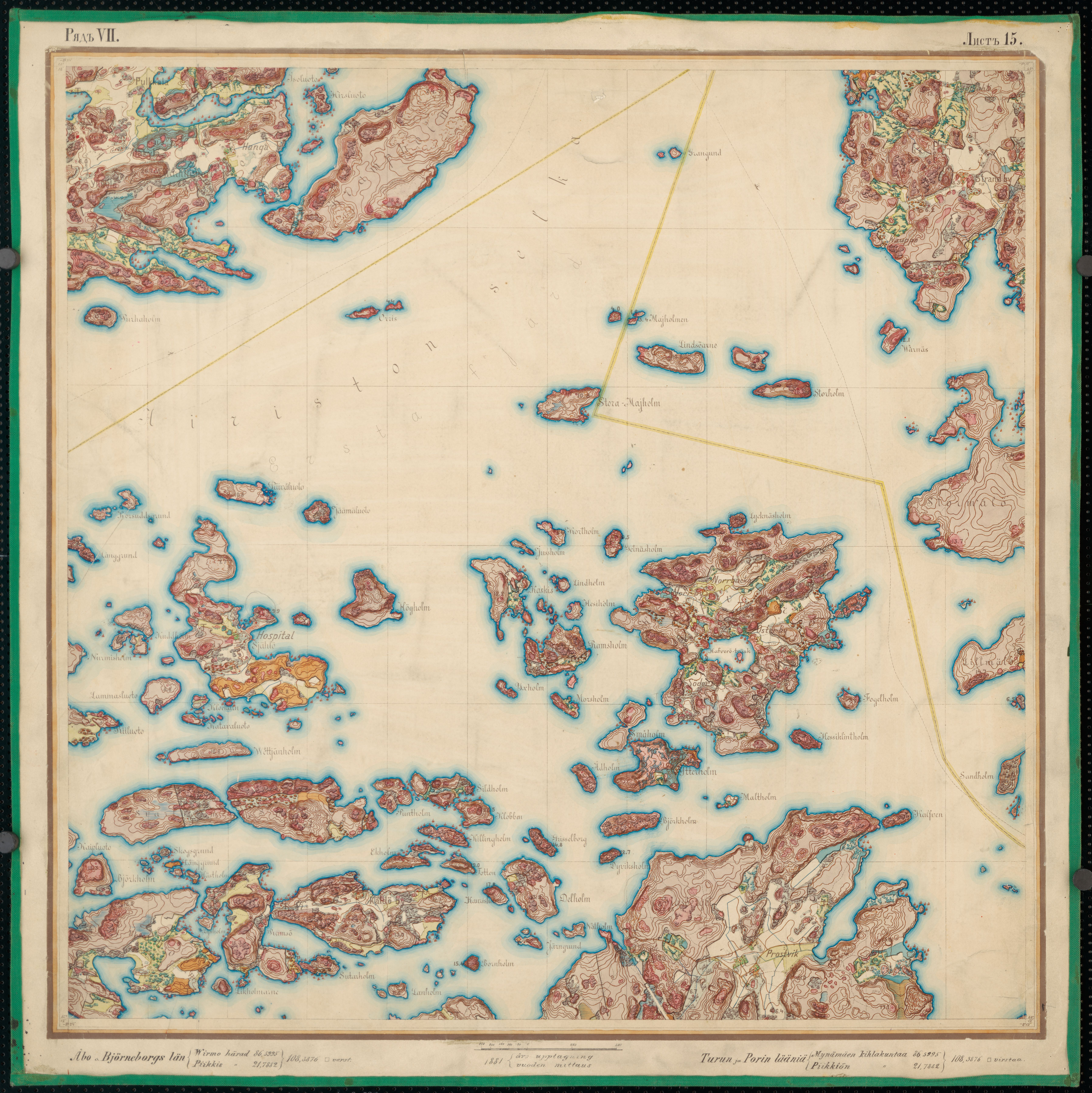 The Senate Atlas is a series of maps of Southern Finland drawn by the Russian Army topographic troops in the end of the 19th and the beginning of the 20th centuries in scale 1:21 000. The Senate Atlas consists of 2 individual series with different colouring traditions, the Russian and the Finnish.